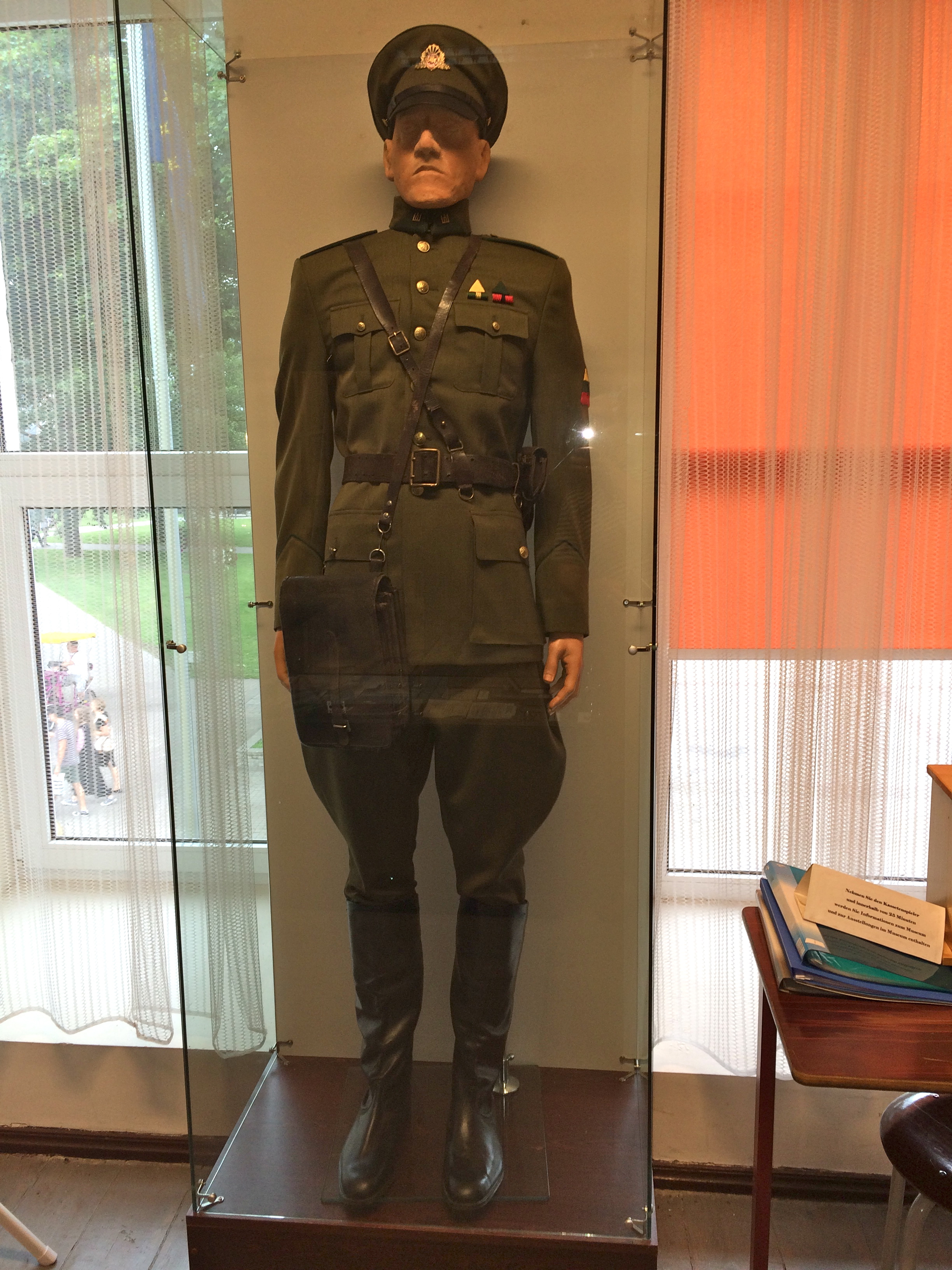 The reconstruction of the uniform of the Lithuanian freedom fighter (1945-1953) in Druskininkai museum of deportations and resistance